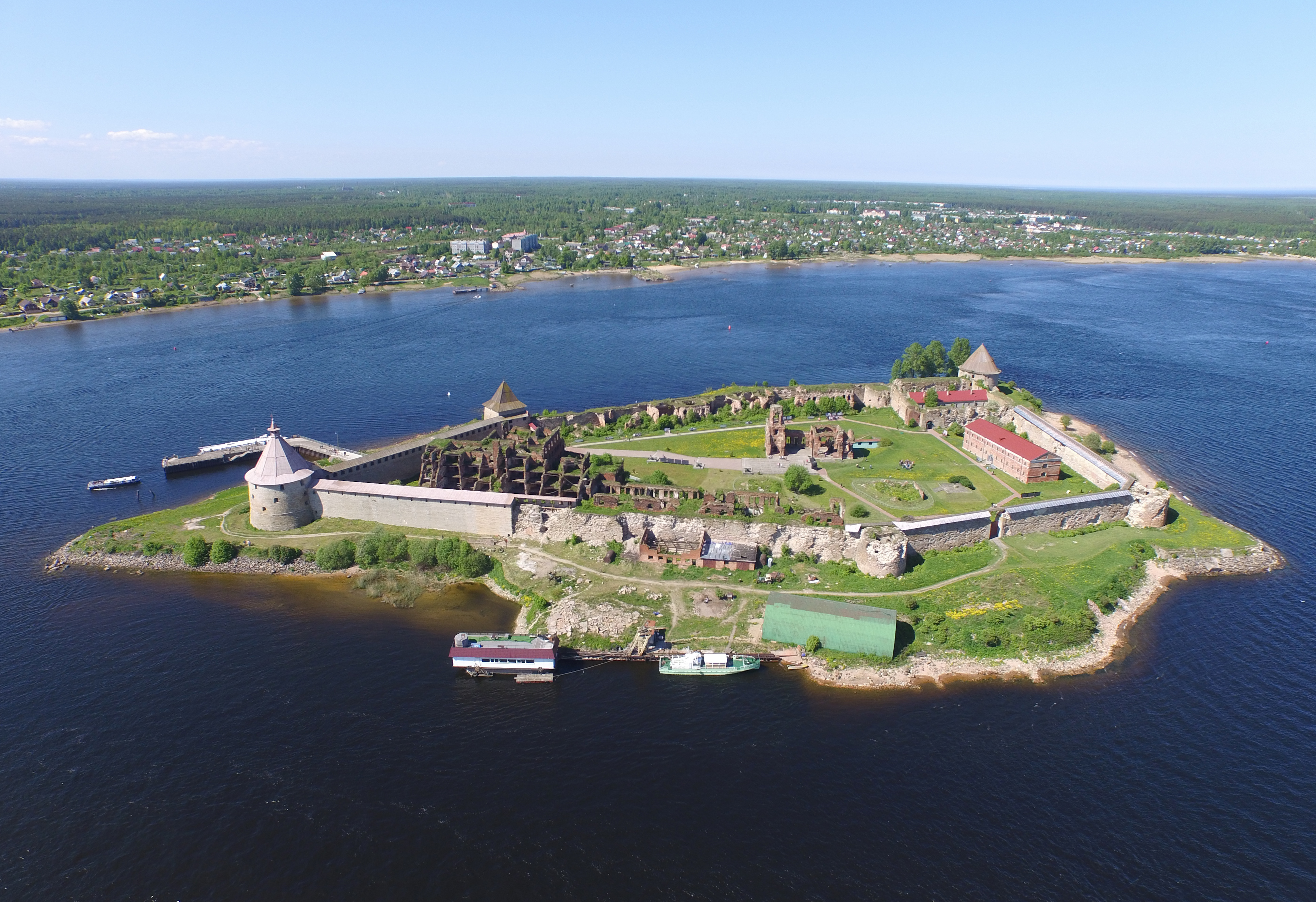 Oreshek fortress, aerial view